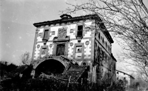 a building in Usurbil, Gipuzkoa, currently hosting Hotel Atxega and once known as Palacio Atxega. Until mid-20th century it belonged to the Altarriba family and was known as Palacio Sangarren